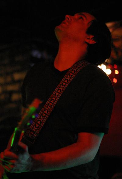 Martin Irigoyen live in Berkeley, CA with Sodium Channel, 2005. Photo by Joshua Uziel